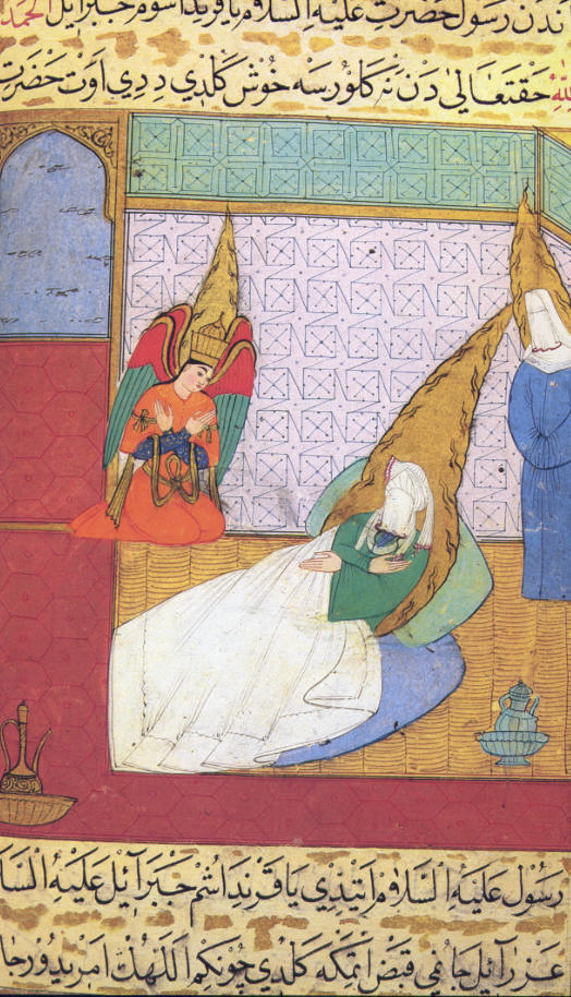 Siyer-I Nebi or Life of the Prophet